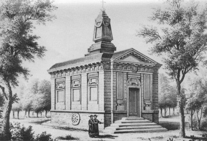 CRYPT CHAPEL in Üröm (Hungary) OF Grand Duchess Alexandra Pavlovna of Russia, 1783-1801, Palatina of Hungary, daughter of tsar Paul I of Russia, wife of, Palatin of Hungary